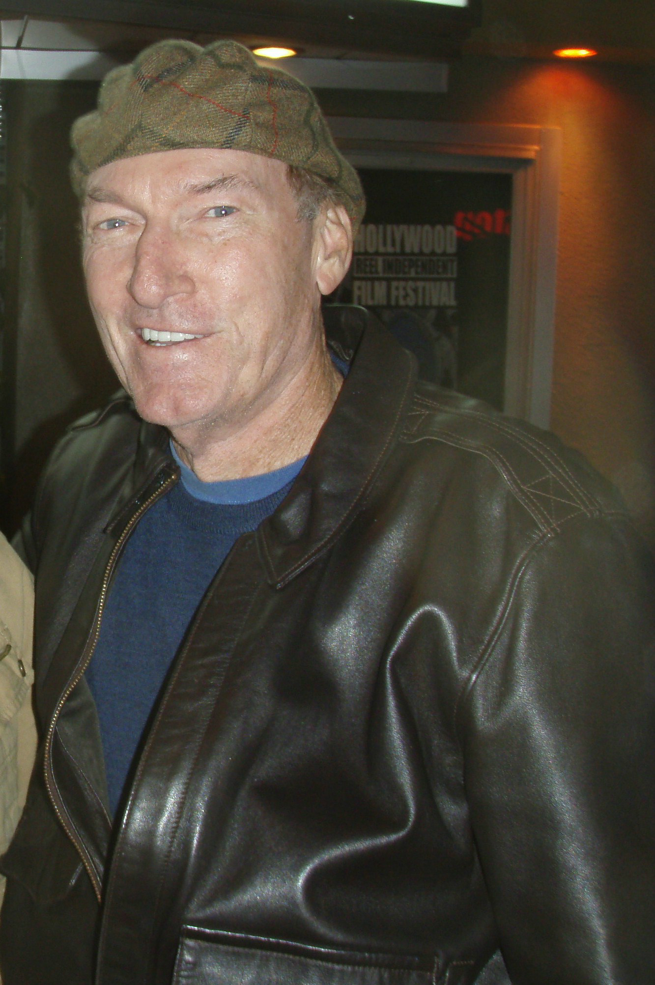 Ed Lauter, an American characteristic actor.